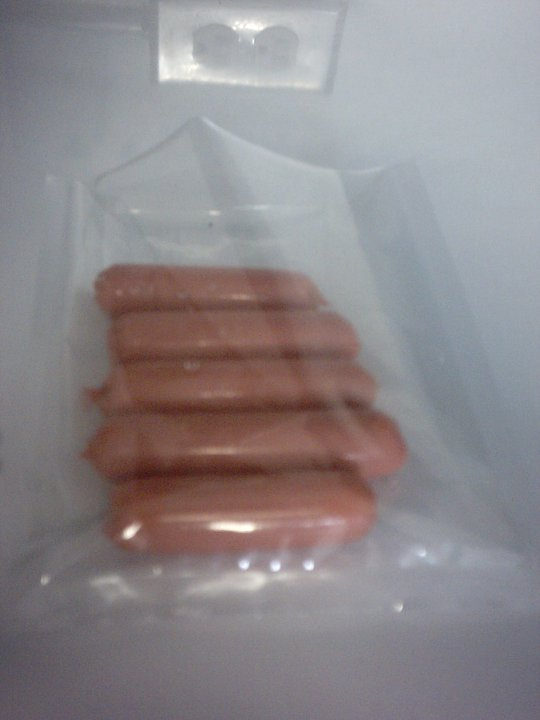 Salchichas